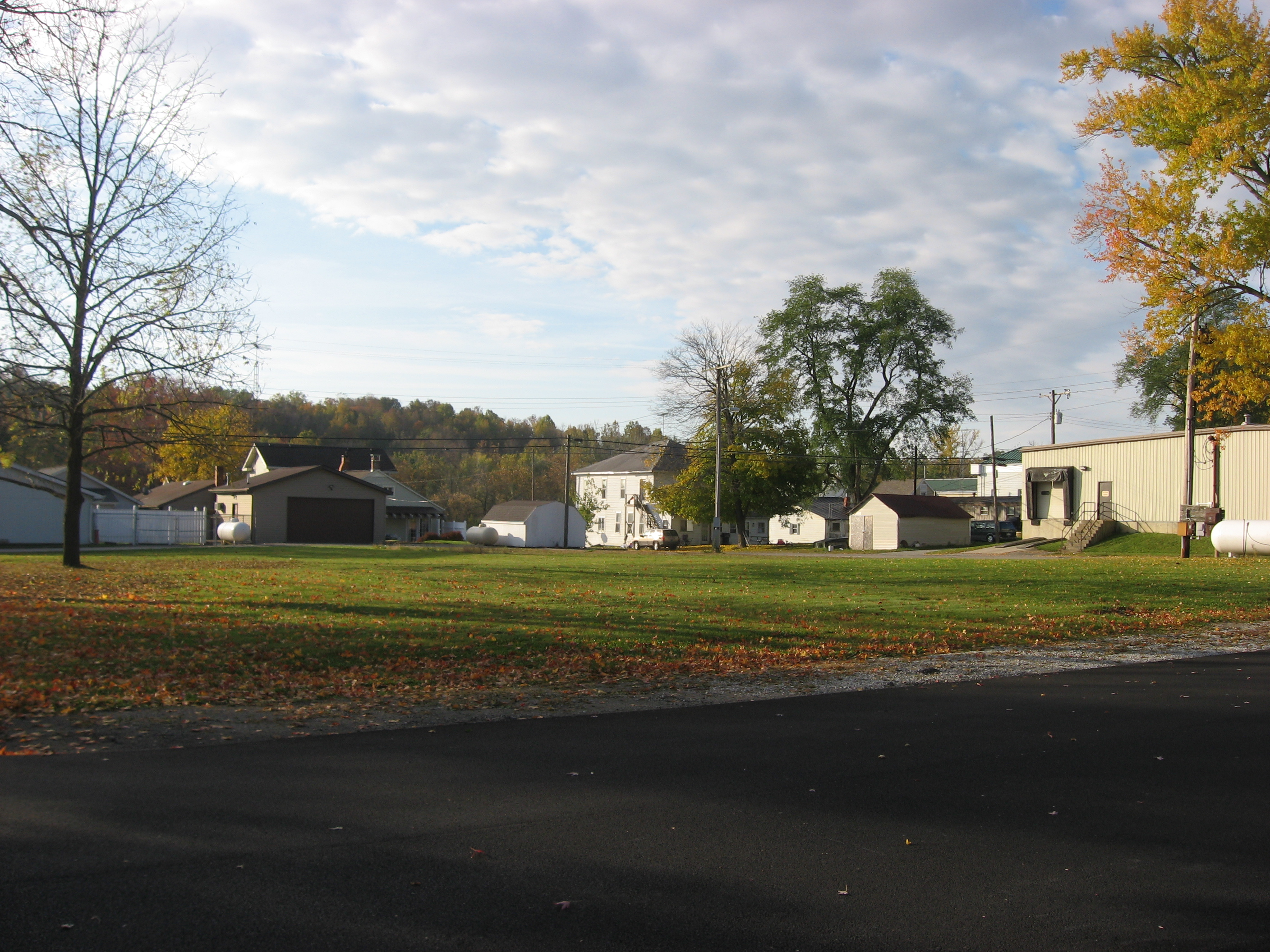 Site of the Port Jefferson School on the southeastern corner of Wall and Spring Streets in Port Jefferson, Ohio, United States. Built in 1877, the school is listed on the National Register of Historic Places despite having been destroyed.